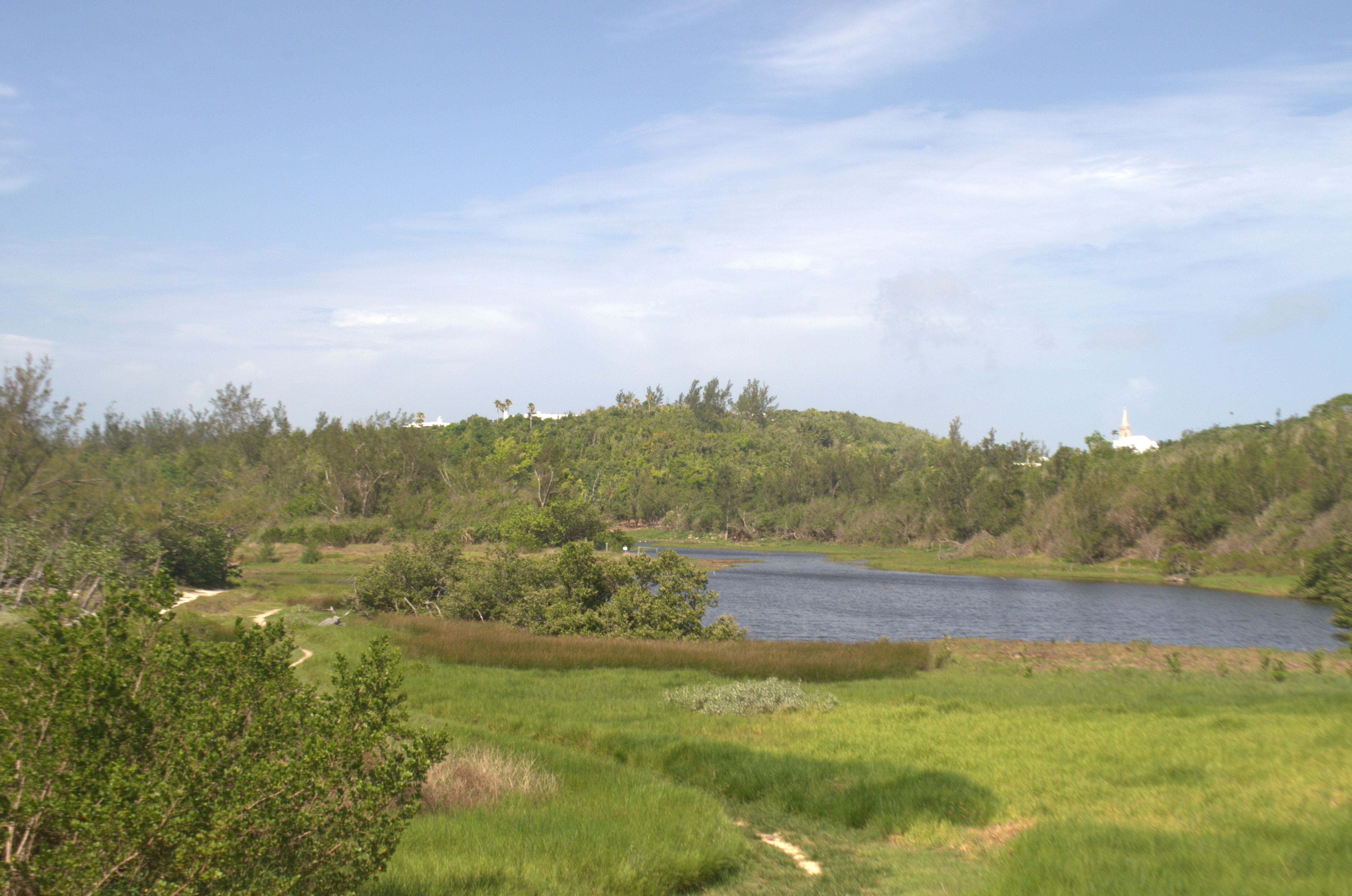 Spittal Pond in Spittal Pond National Park.